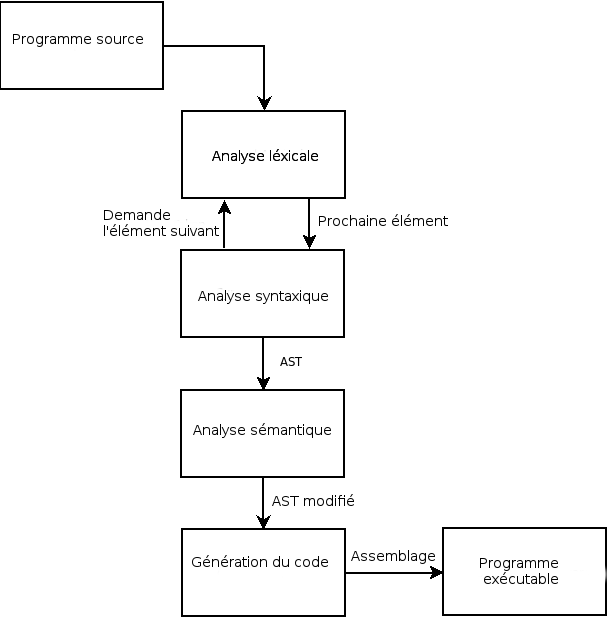 Un compilateur multipasses